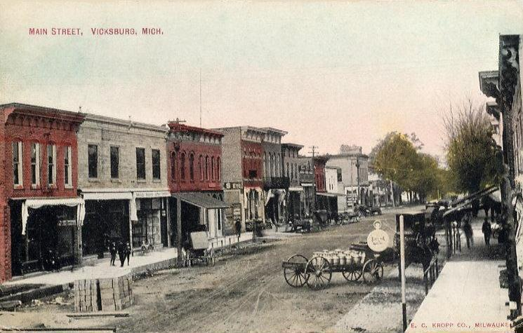 Main Street, Vicksburg, Michigan; from a 1909 postcard published by E. C. Kropp, Milwaukee, Wisconsin.